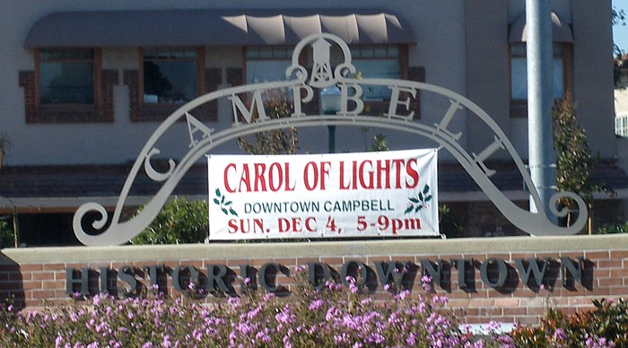 The sign welcoming visitors to the historic downtown area of the city of Campbell.